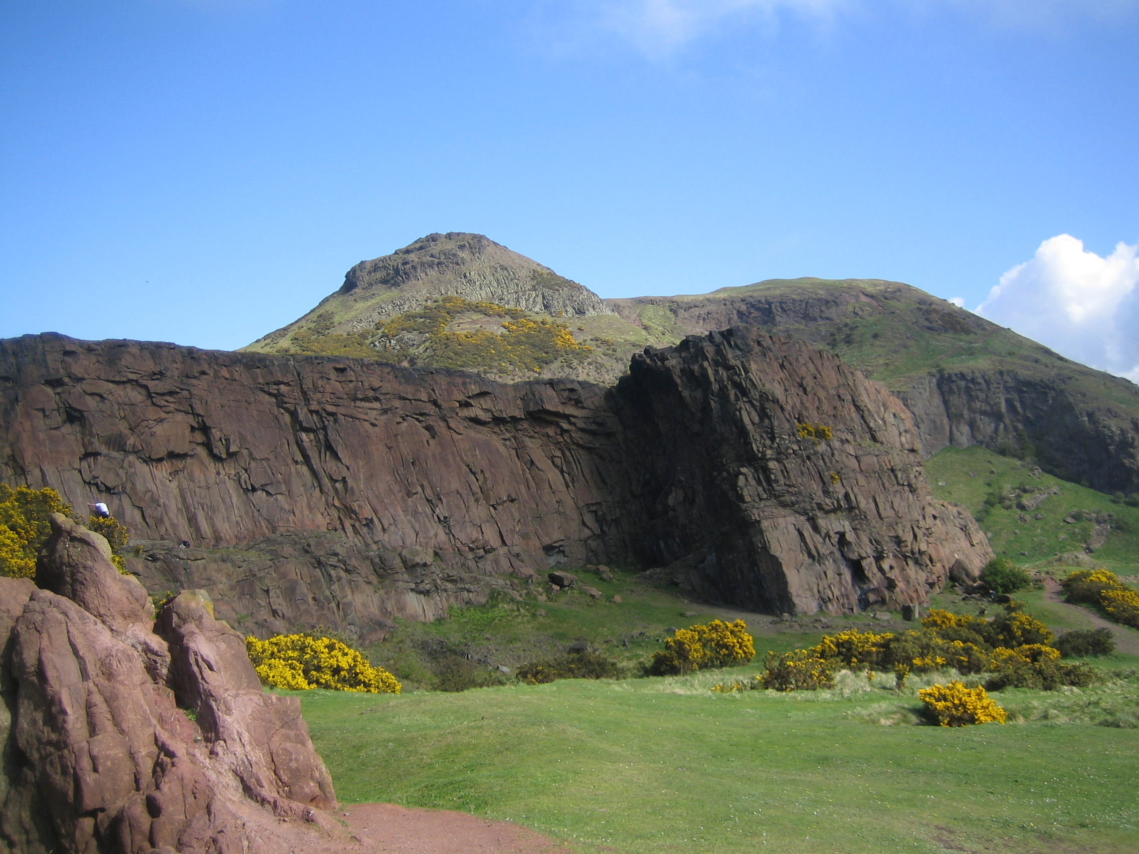 Look, it's a lion. Why can't people see it!